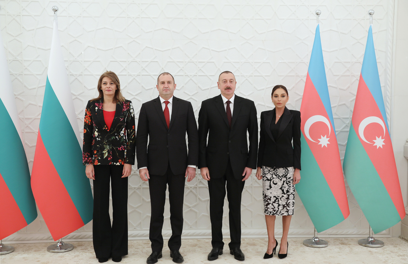 Official welcome ceremony was held for Bulgarian President Rumen Radev (Azerbaijan-Bulgaria relations)